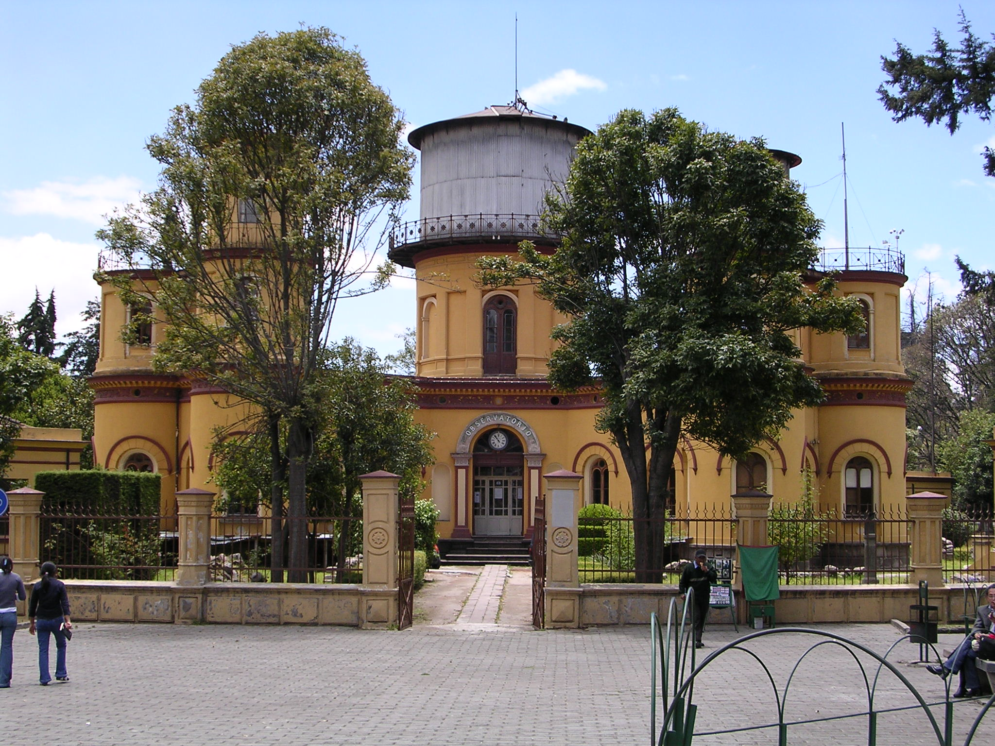 Quito Observatory, located in the park La Alameda. Established in 1873, it was the first national observatory of South America.